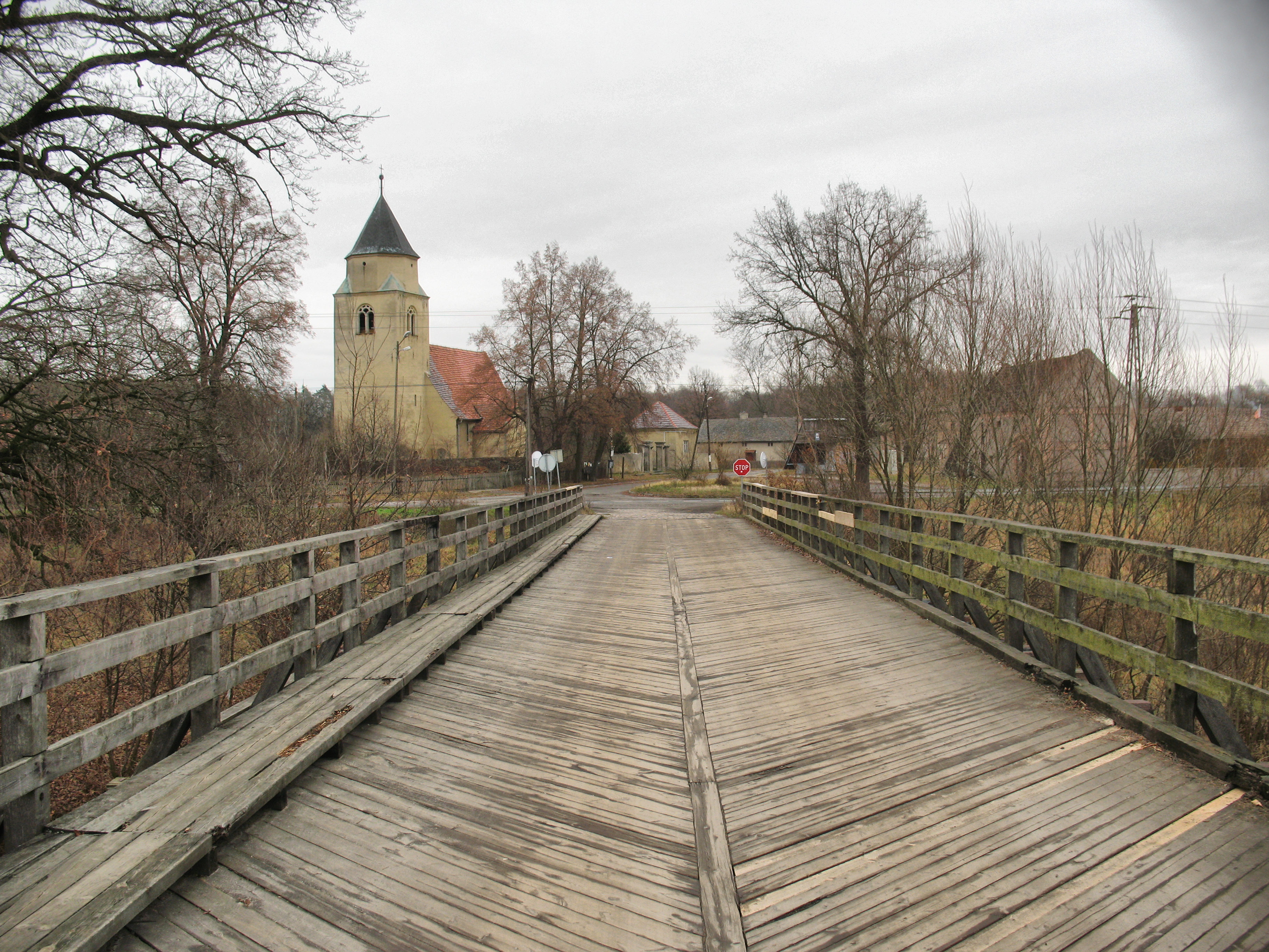 Wooden bridge in Gorzupia Dolna, western Poland